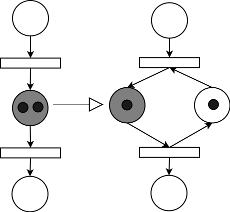 This is a picture illustrating how a place is place-transformed when doing place transformation in s. Grey-coloured place is transformed into an original and a counter-place. I, did this work of art :) with dia(itself GPL), exporting it into png. Request .dia from me, if needed